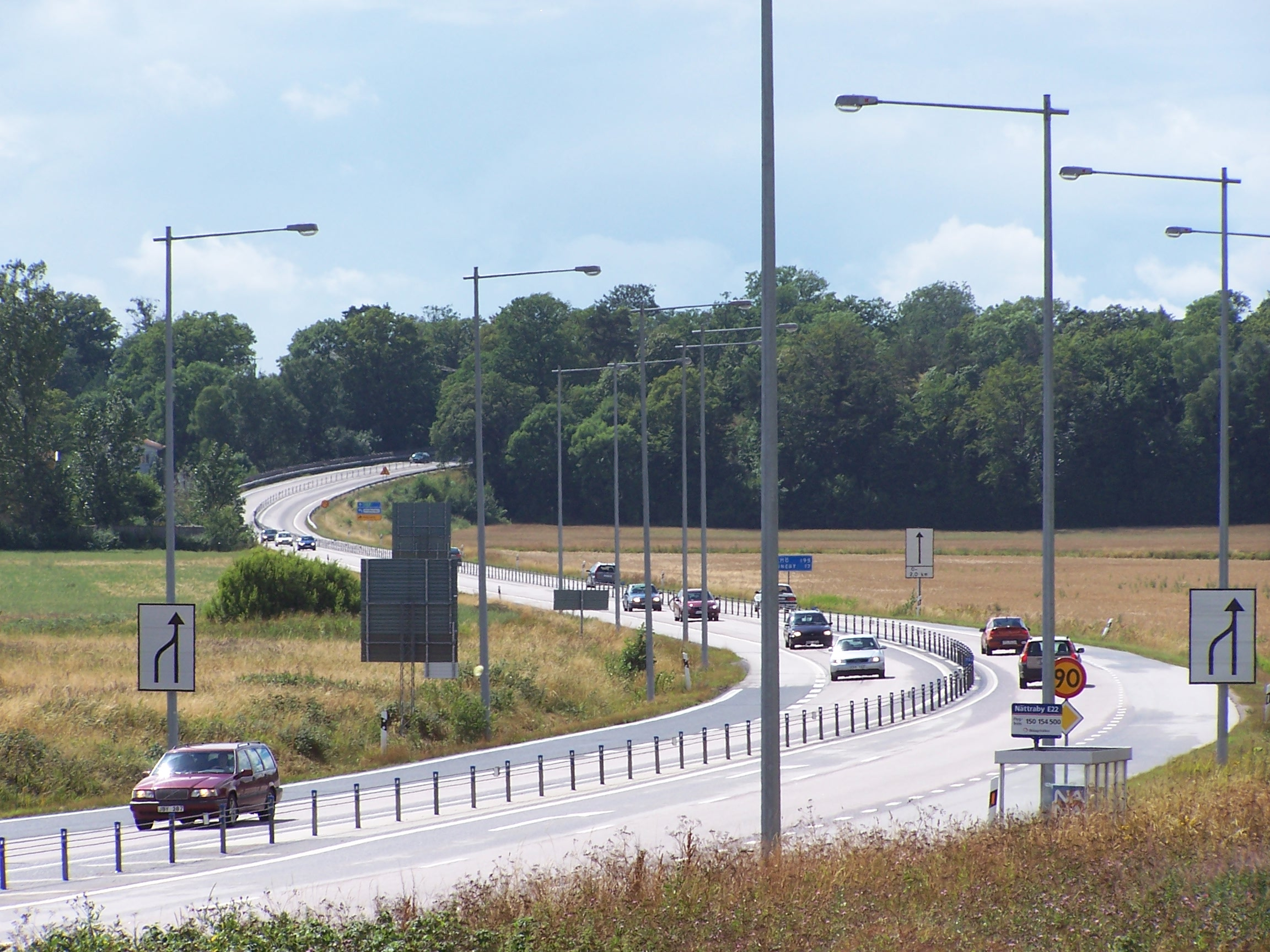 E22 Trafikplats Nättraby heading east towards Ronneby